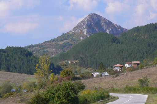 Filipovtsi village in the Zavalska mountain in Bulgaria